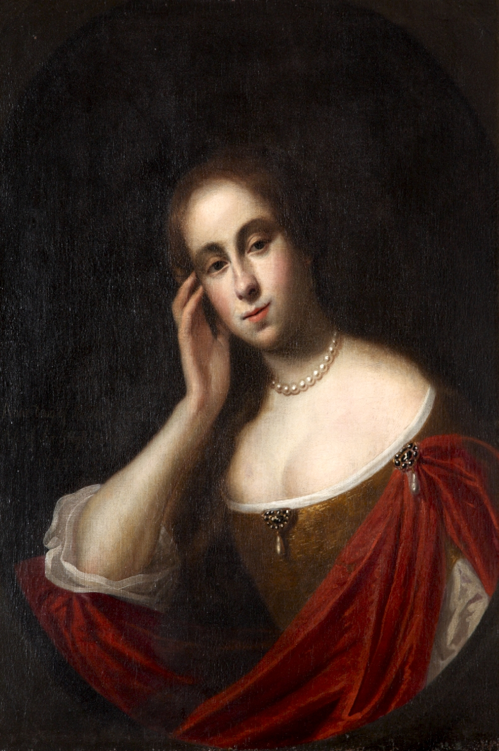 Margaret Acland (d.1691), (Lady Arundell), daughter of Sir John Acland, 3rd Baronet (d.1655) of Columb John, Devon, and wife of John Arundell, 2nd Baron Arundell of Trerice (d.1697), of Trerice, Cornwall. Collection of National Trust, on loan from Sir Richard Acland's collection at Killerton House (National Trust), on display at Trerice House, Cornwall. Oil on canvas, 78.5 * 62cm